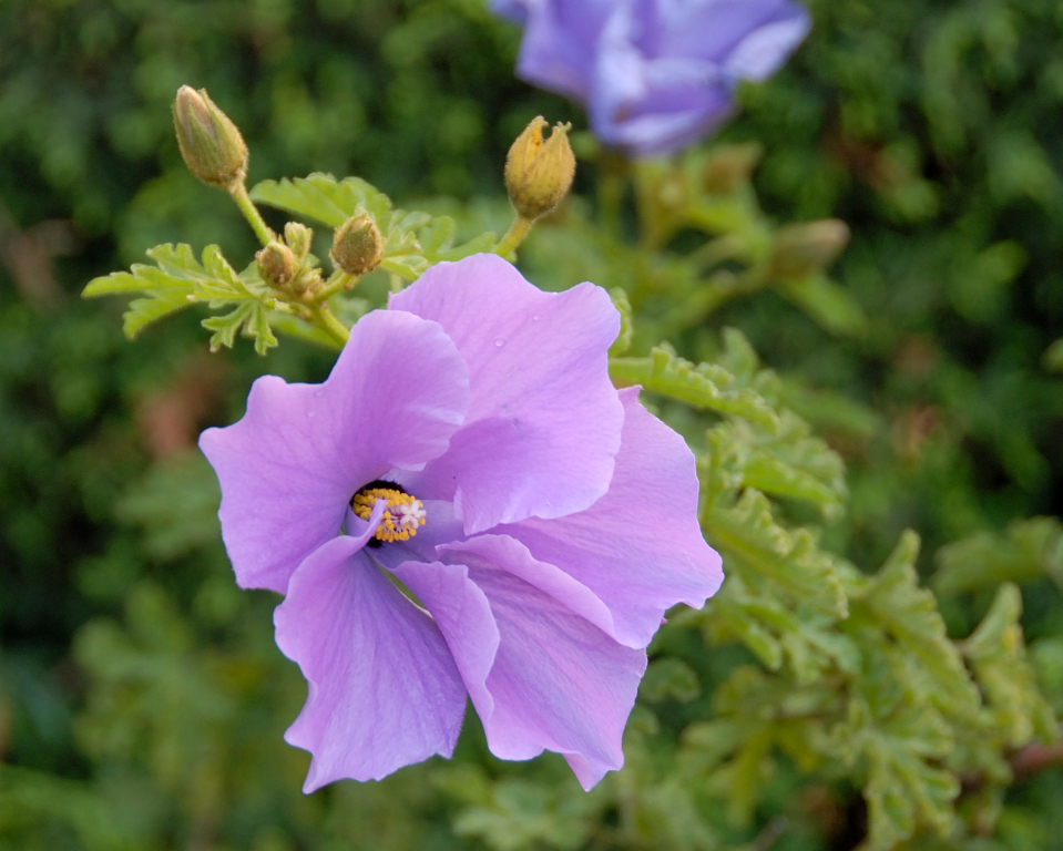 A digital image of Alyogyne huegelii in a coastal garden near Fremantle. Sold as a cultivar, it is named Australian Beauty; it is also known as Lilac Hibiscus, a genus in which it was misplaced.